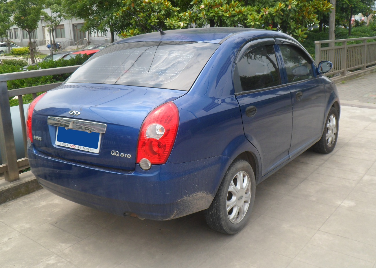 Chery QQ6 photographed in Shanghai, China.